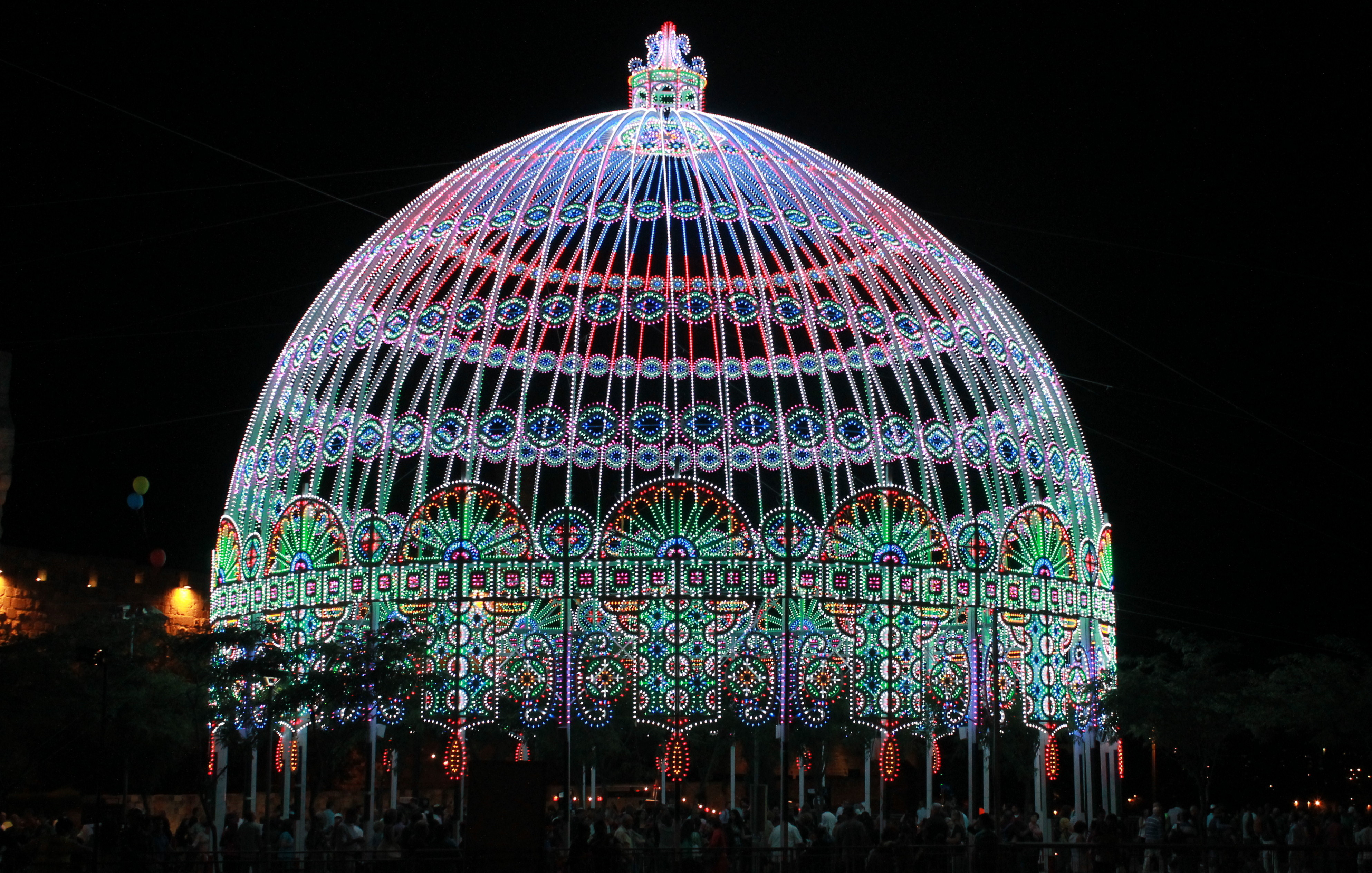 Fastival HaOr in jerusalem